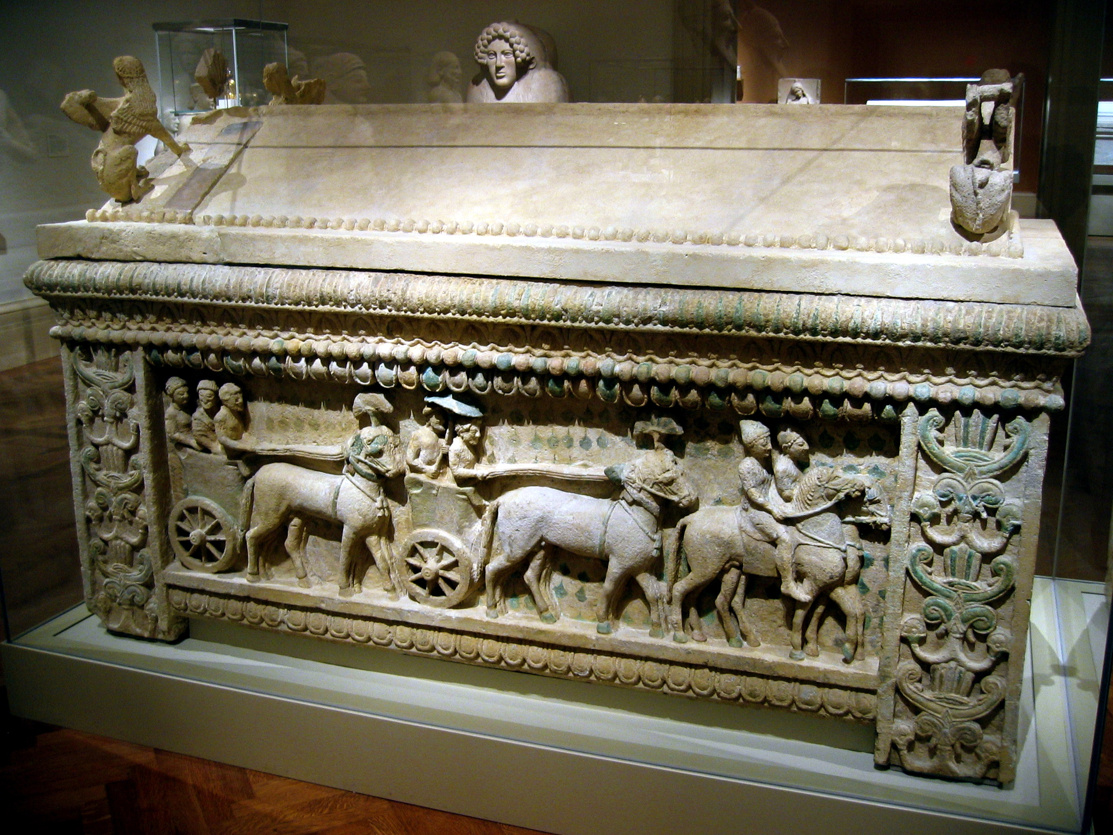 Limestone sarcophagus: the Amathus sarcophagus, Sarcophagus, Amathus, 2nd quarter of the 5th century B.C.; Archaic period. Cypriot Limestone; Overall: 62 x 93 1/8 x 38 1/2in. (157.5 x 236.6 x 97.8cm) The Amathus sarcophagus, from Amathus, Cyprus, arguably the single most important object in the Cesnola Collection, is unique among ancient Cypriot sculptures in its monumentality and in the preservation of its polychromy. It probably belonged to one of the kings of Amathus. The primary scenes, on the long sides, show a procession of chariots escorted by attendants on horseback and followed by foot soldiers. The main personage is probably the driver, who is standing under a parasol in the first chariot. His horses, like the others, are richly caparisoned; his chariot resembles the others as well, except that the wheel has fewer spokes. The decoration of the short ends of the sarcophagus consists of a row of Astarte figures, nude except for their double necklaces and ear caps, and a row of Bes figures. The choice of these two deities - one Near Eastern, the other Egyptian - suggests the importance of procreation to the deceased. The figural panels are framed by a variety of vegetal ornaments, while the gabled lid once featured a pair of sphinxes and a palmette at each end. The iconography as a whole documents the thorough integration of Greek, Cypriot, and Oriental features in the middle fifth century B.C. and is a work of high quality. (Metropolitan Museum of Art, NYC)